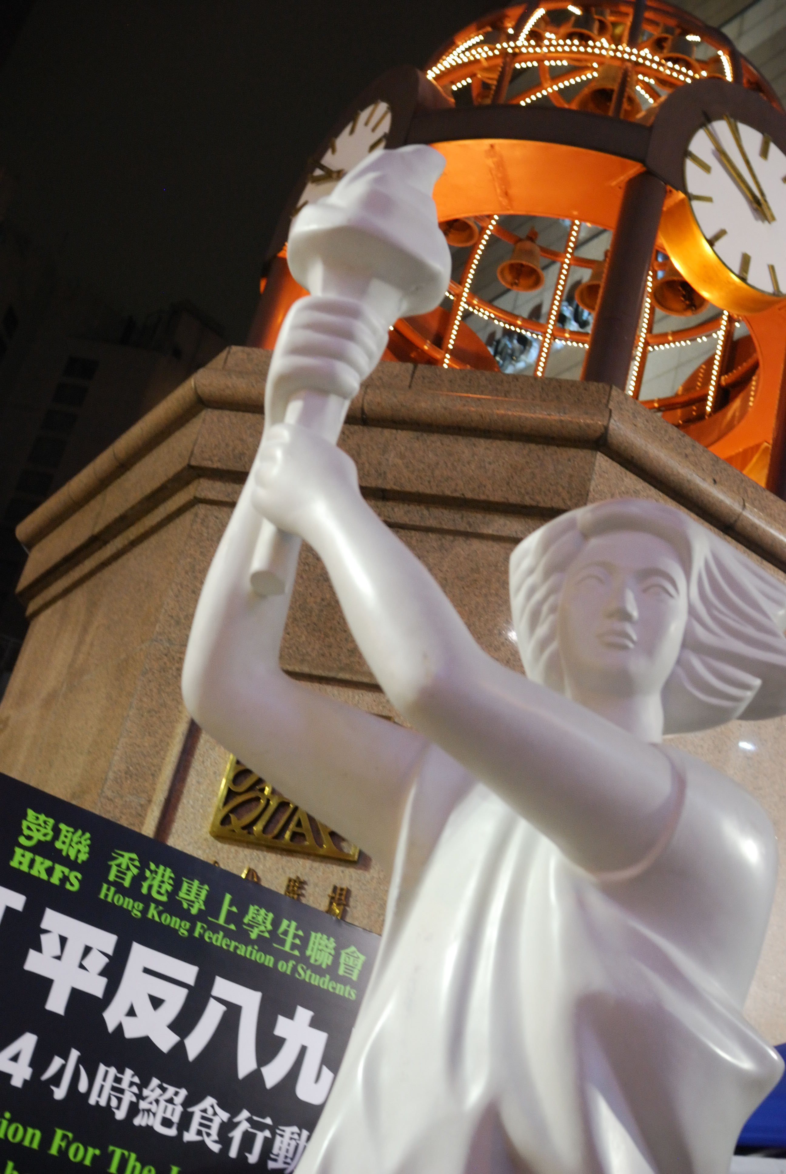 20th anniversary of the June 4th incident. A candlelight vigil was held in HK on June 4, 2009. Image of statue of democracy in HK Time square.